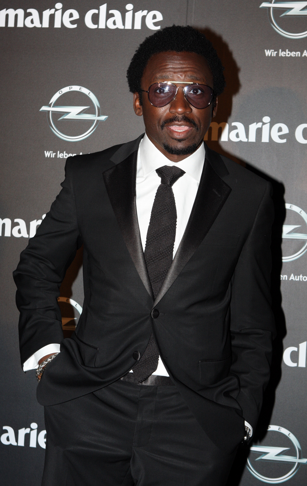 Tony Okungbowa at 2013 Prix de Marie Claire Awards